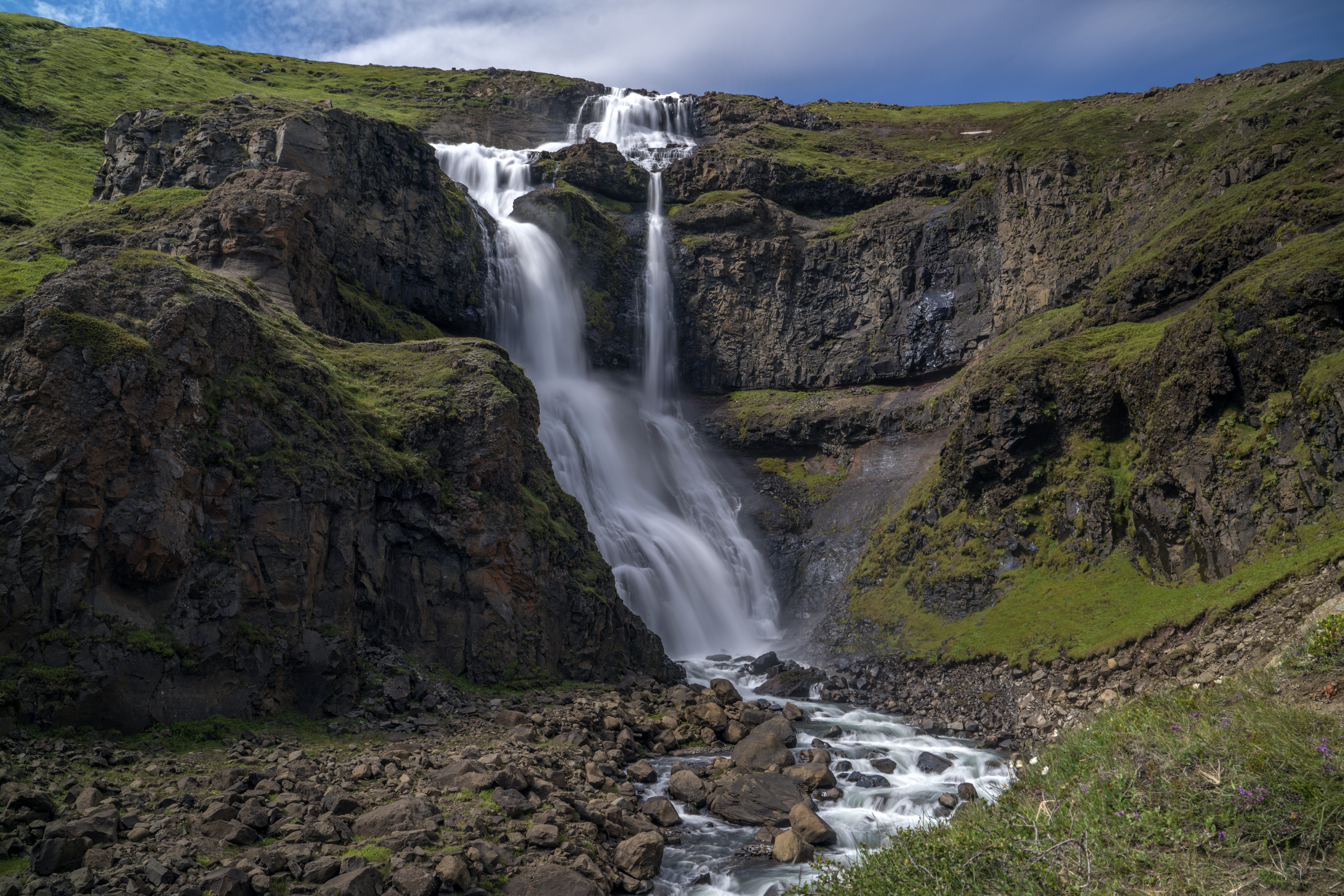 Rjukandi waterfall (Iceland)